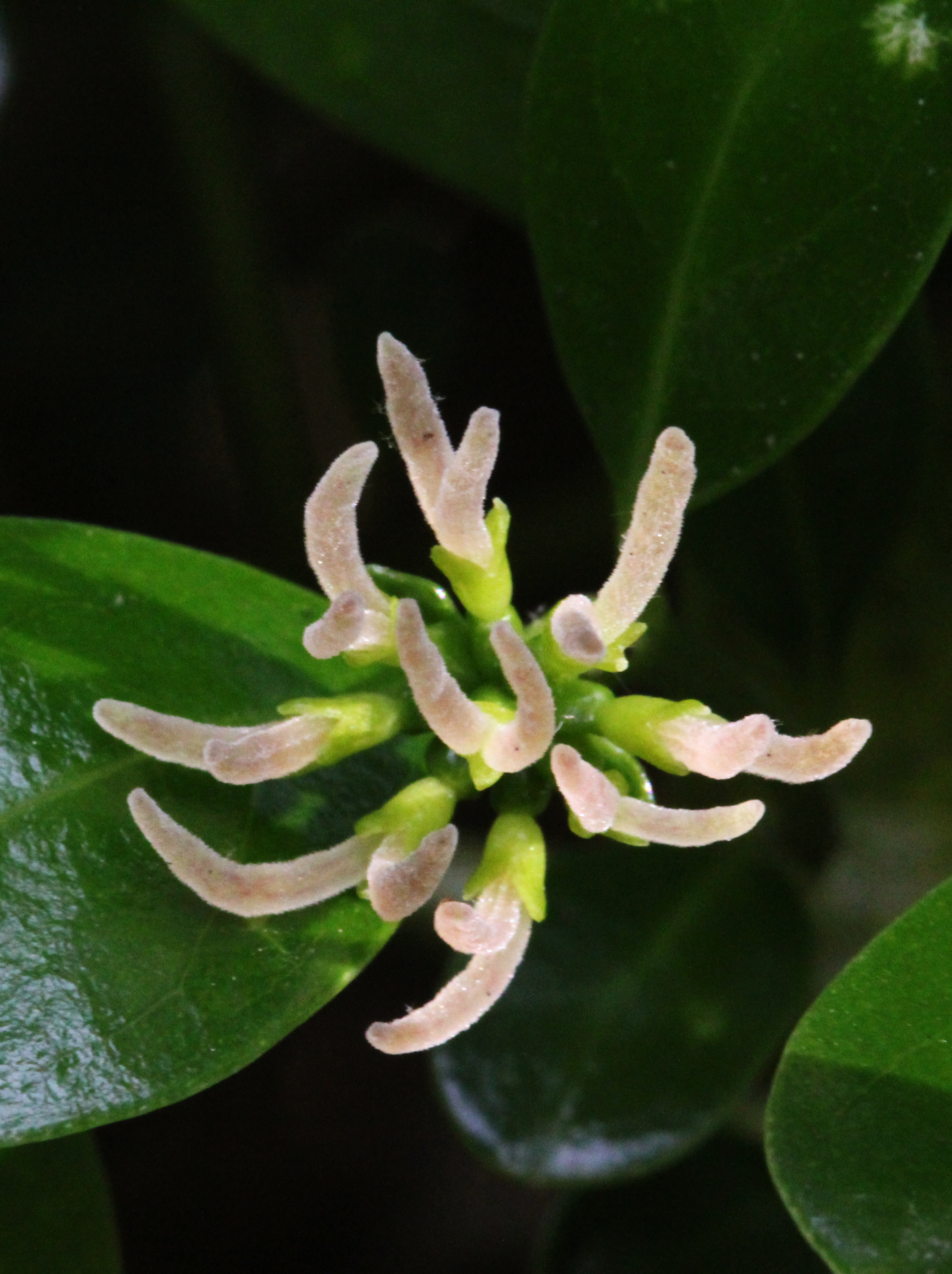 Female taupata flower (Coprosma repens). Photo taken in Auckland, New Zealand.